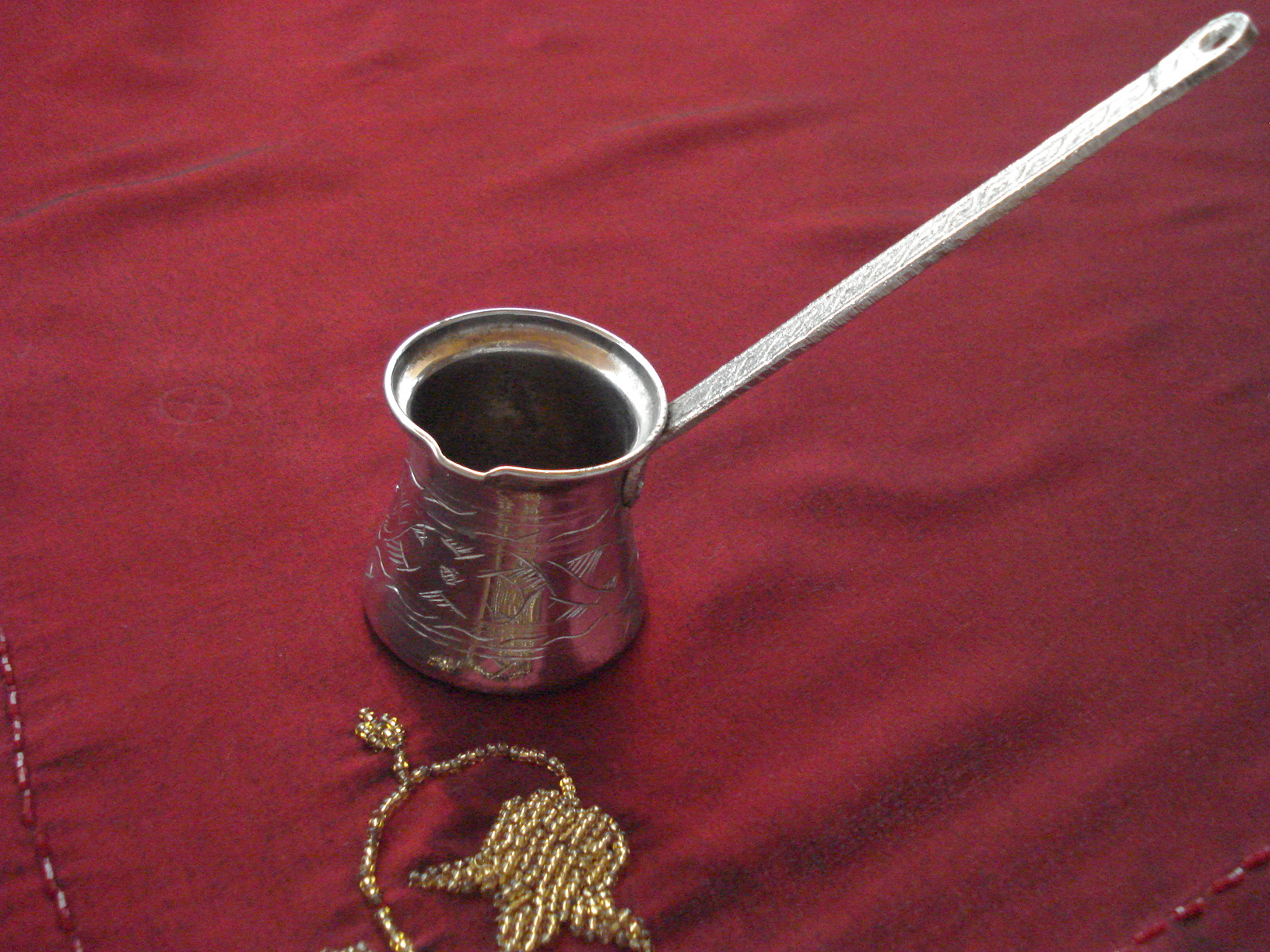 Cuprium coffee pot in Turkish culture